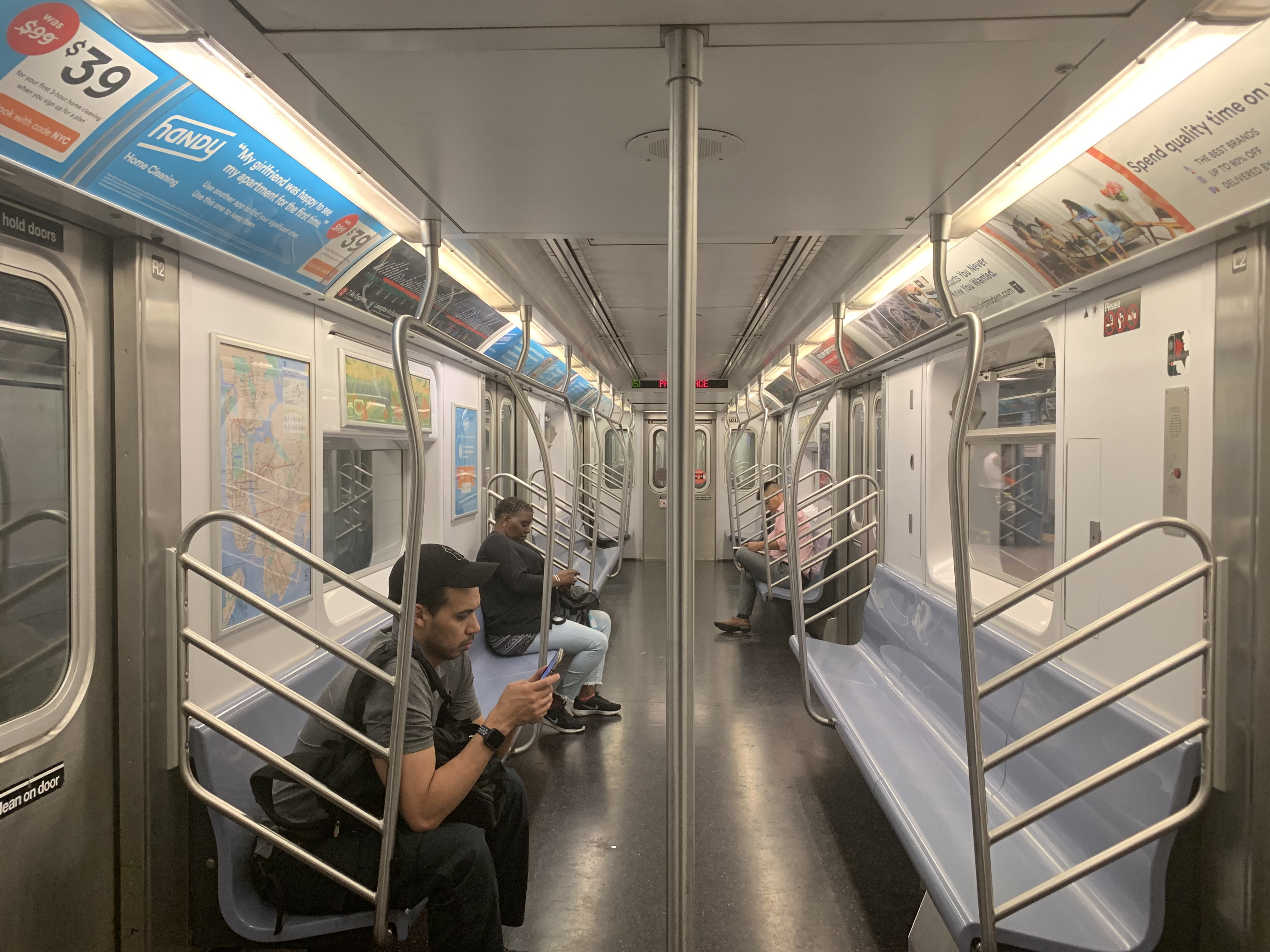 The interior of a Bronx bound 5 train going via the 2 line, due to track work on Lexington.